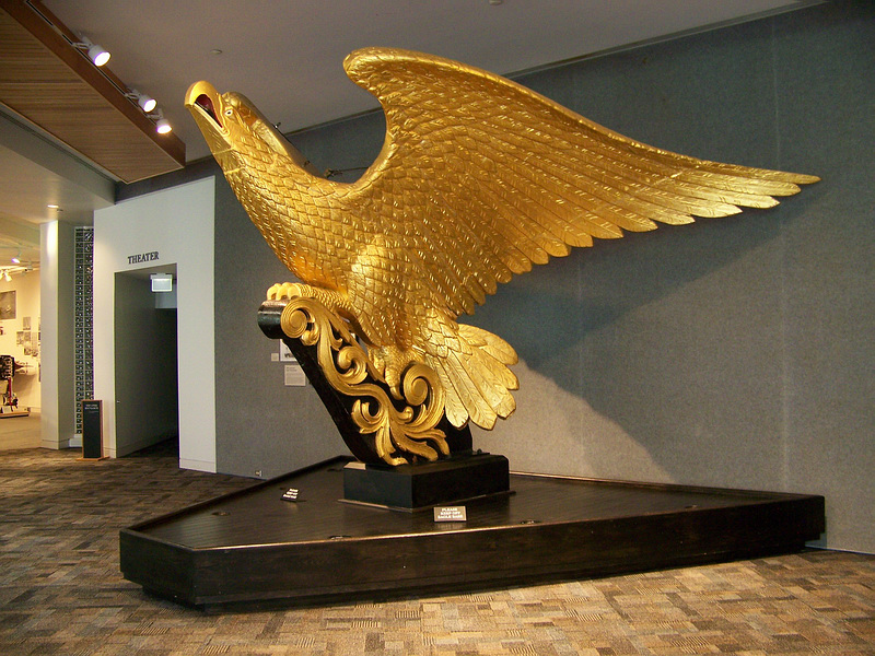 Eagle figurehead from the USS Lancaster, circa 1880 John Haley Bellamy, carver (Amer. 1836-1914)